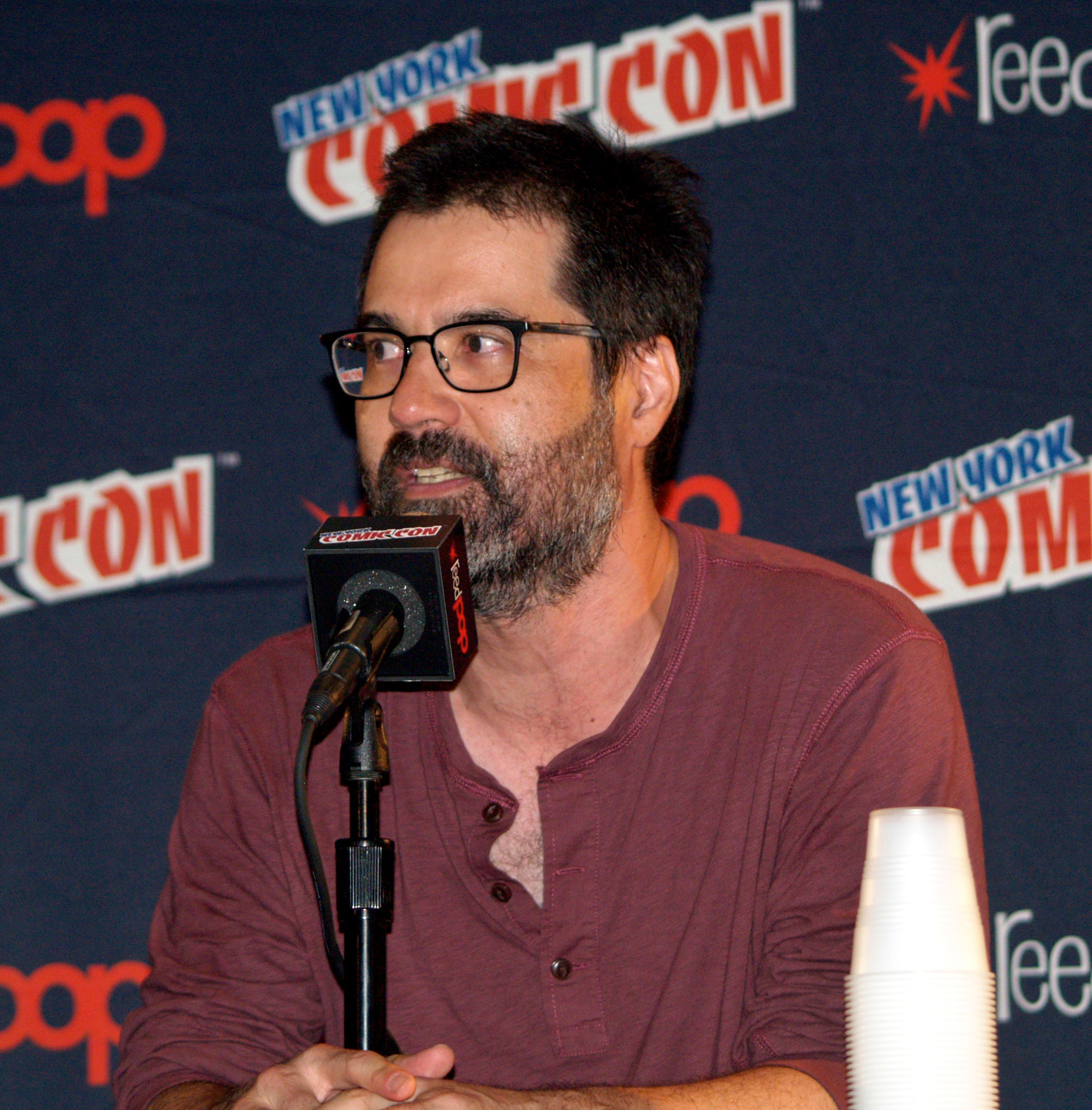 Comics writer and film director Greg Pak at "The Return of the Dakota Universe" panel discussion on Thursday, October 5, 2017 at the Jacob K. Javits Convention Center in Manhattan, Day 1 of the 2017 New York Comic Con. This photo was created by Luigi Novi. It is not in the public domain, and use of this file outside of the licensing terms is a copyright violation.